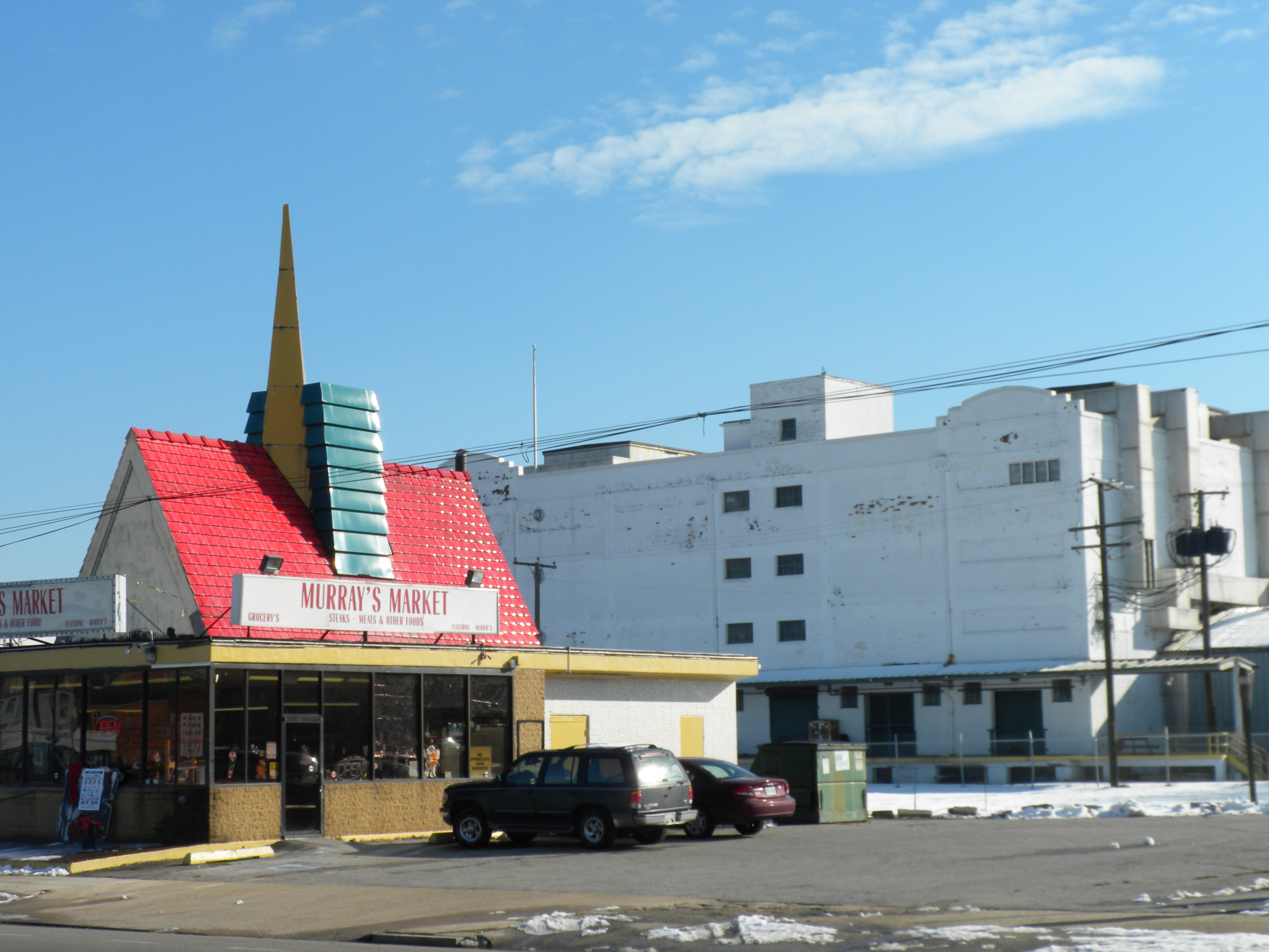 Industrial District along Washington Street in Petersburg, VA. On NRHP. I donate this photo to the public domain.